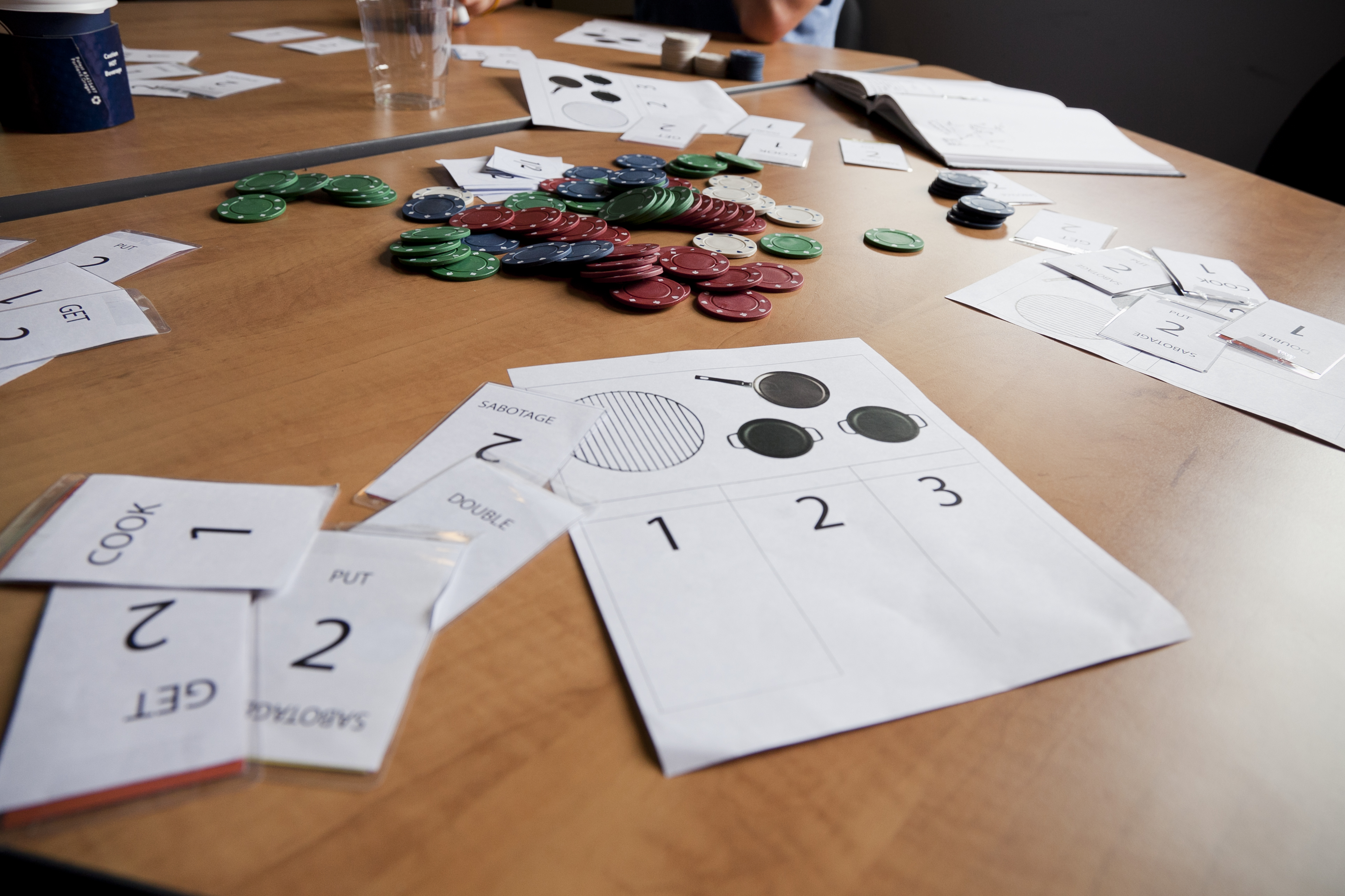 Gamification techniques picture